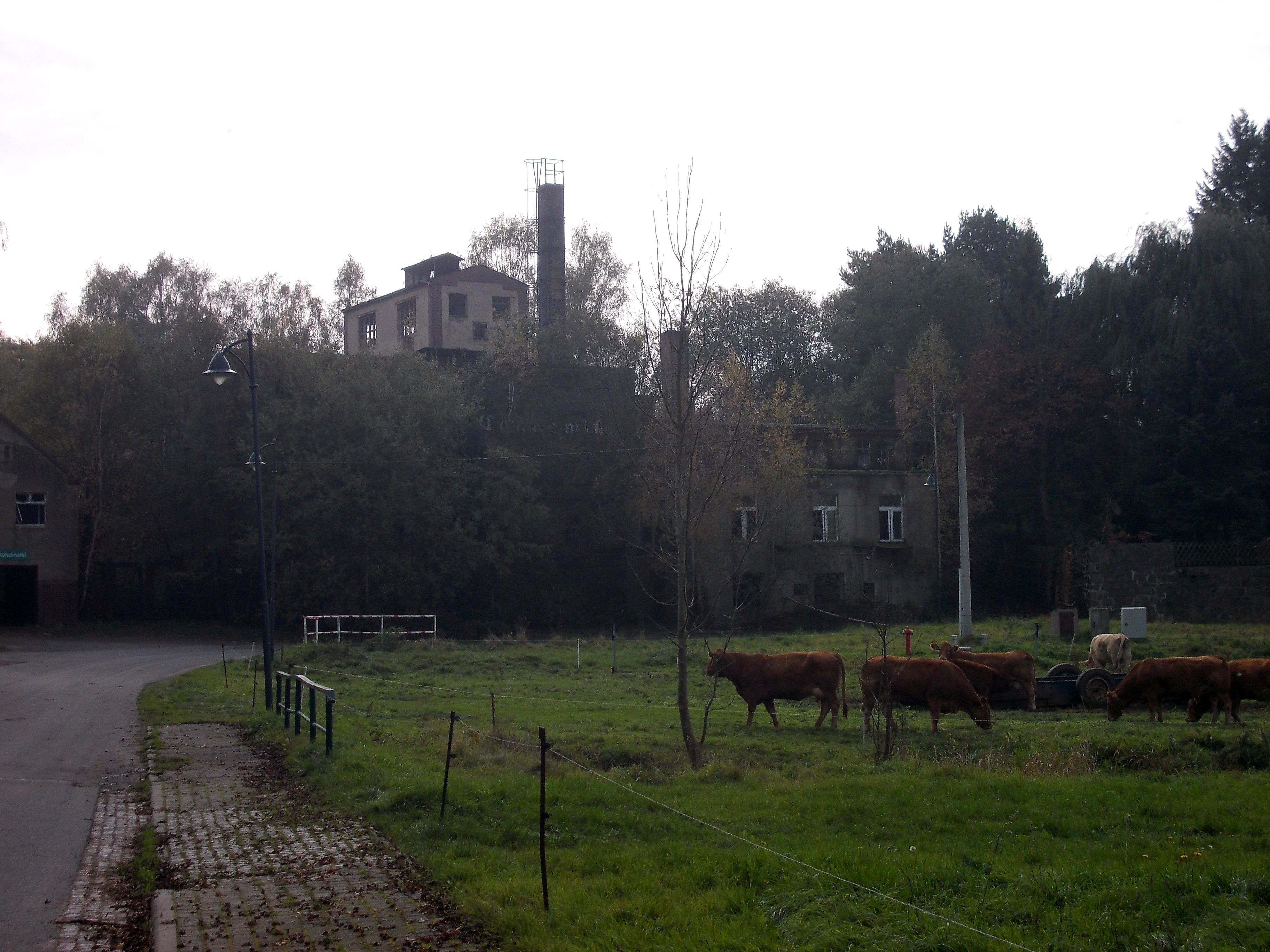 Former brewery in Cannewitz (Grimma, Leipzig district, Saxony)